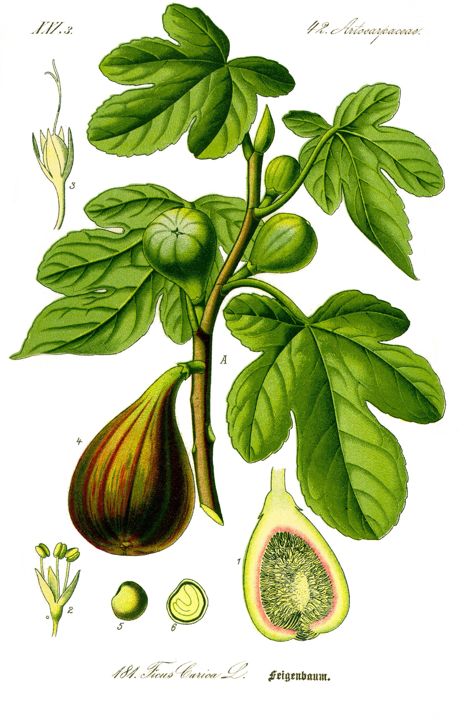 Ficus carica, Clean version of Image:Illustration_Ficus_carica0.jpg